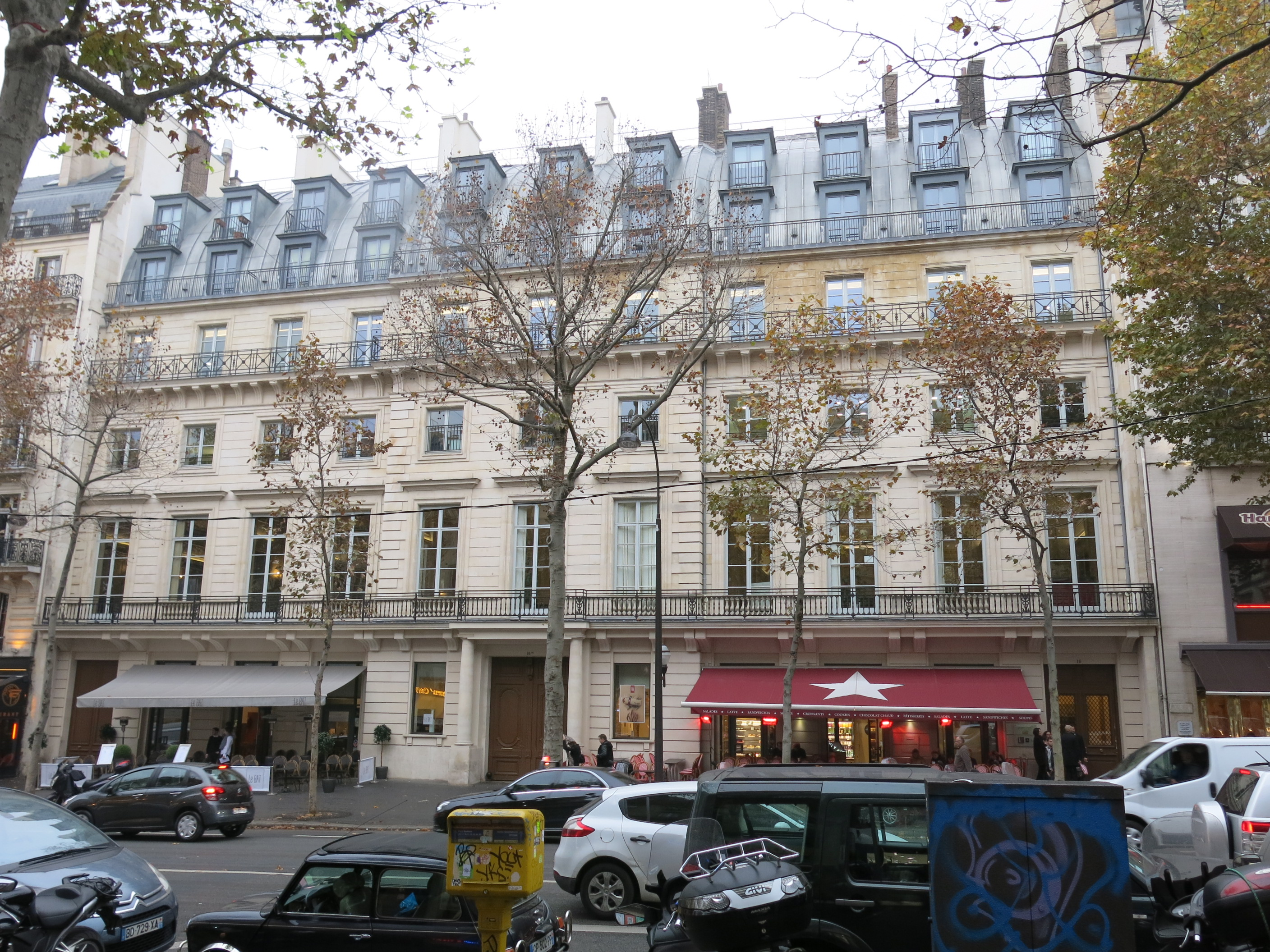 Hôtel de Mercy-Argenteau, 16 Boulevard Montmartre (Paris 9th arr., France). Built in 1778 by Firmin Perlin for the comte de Mercy-Argenteau.